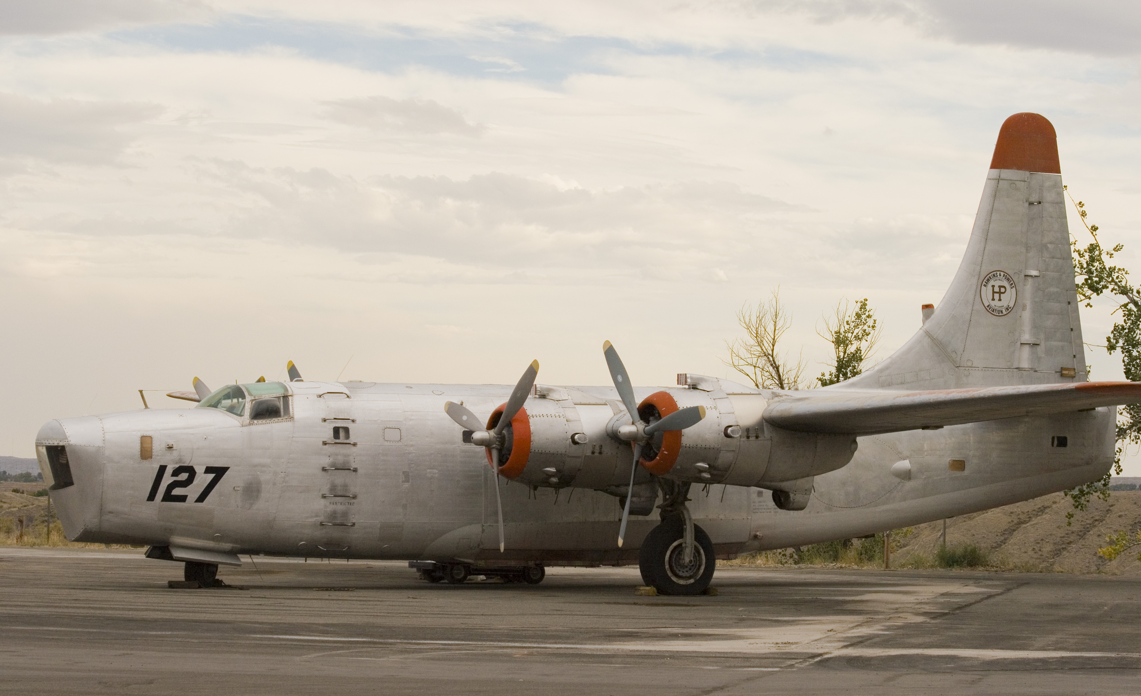 Harkins & Powers PB4Y N6884C water-bomber at Greybull, Wyoming airport